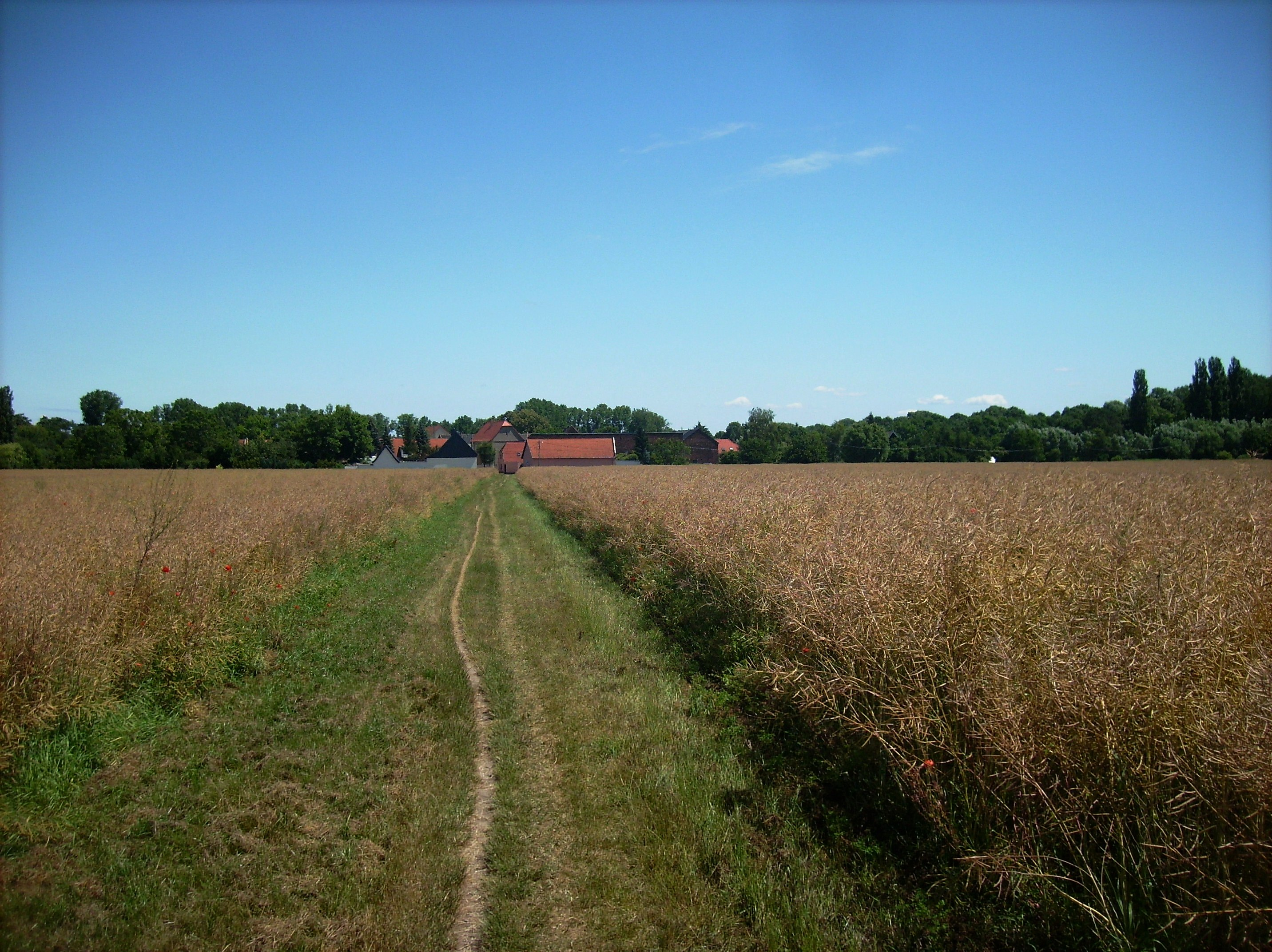 The village of Zehmitz (Südliches Anhalt, Anhalt-Bitterfeld district, Saxony-Anhalt) from the west